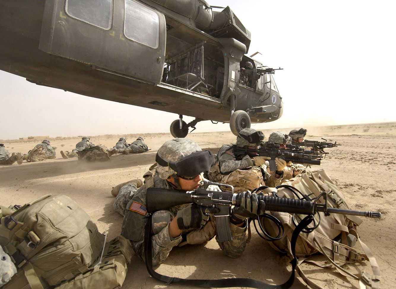 AL JAZEERA DESERT, Iraq -- Soldiers from the 1st Brigade of U.S. Army Europe's 1st Armored Division dismount a UH-60 Black Hawk helicopter during an air assault mission in the Al Jazeera Desert, Iraq.